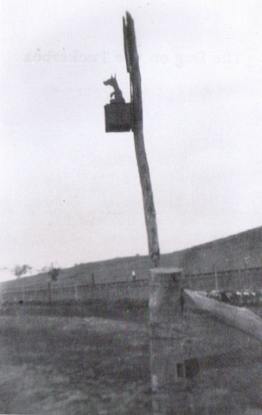 An early dog monument from Scarff, L (1994). The Dog on the Tuckerbox: it's story. Kangaroo Press, Kenthurst, NSW. ISBN 0864176279. Caption reads "1926 - The first Dog 'monument' hoisted at the nine mile site by an unknown resident.